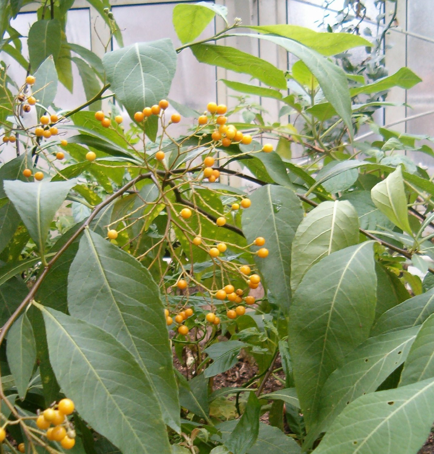 Location: Botanical Gardens Berlin Dahlem